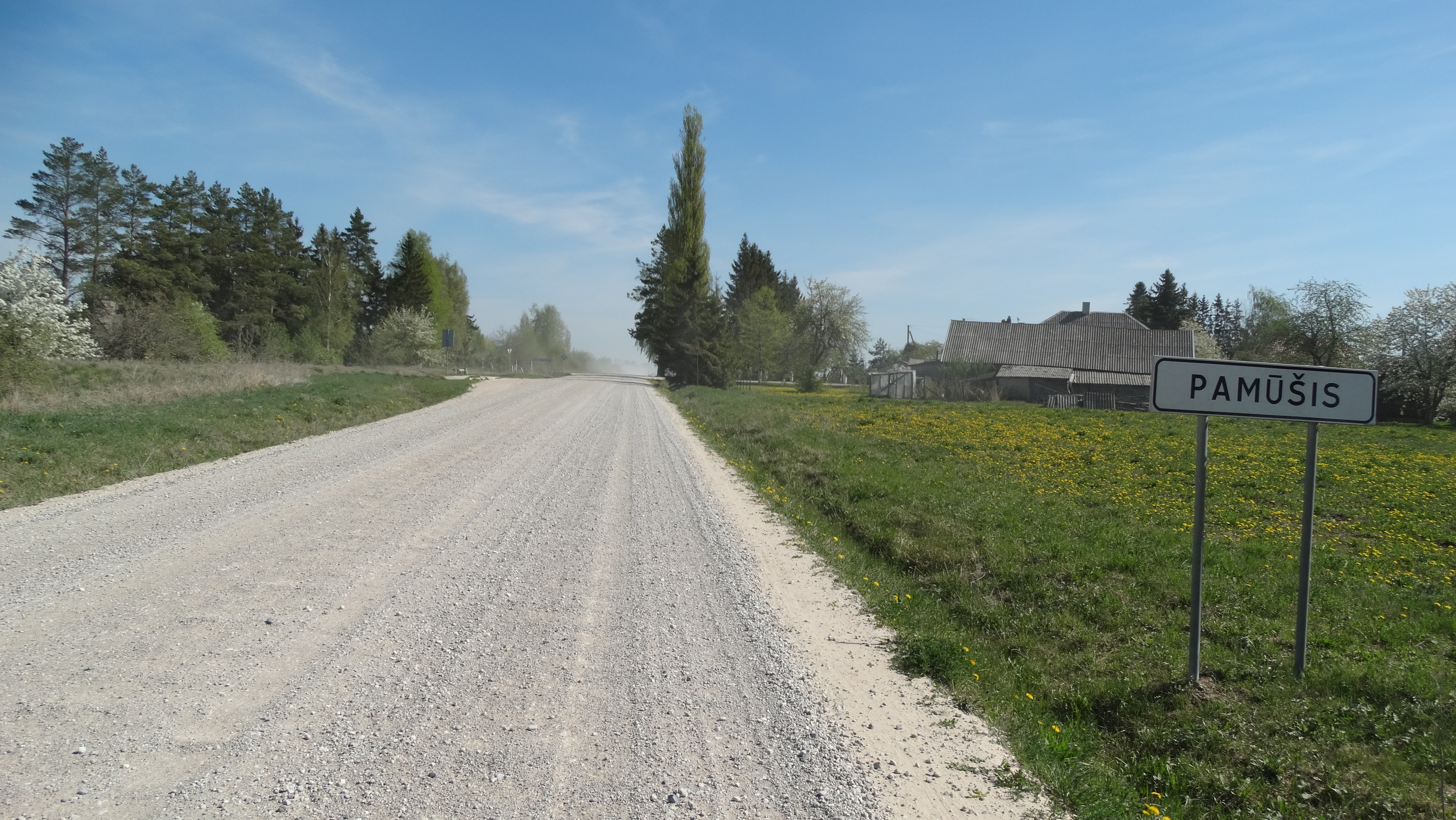 Pamūšis (Klovainiai), Pakruojis district, Lithuania